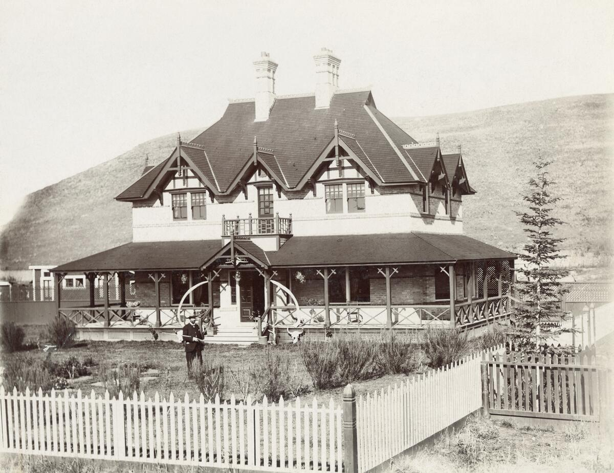 The William Roper Hull Ranche House Provincial Historic Resource, Calgary